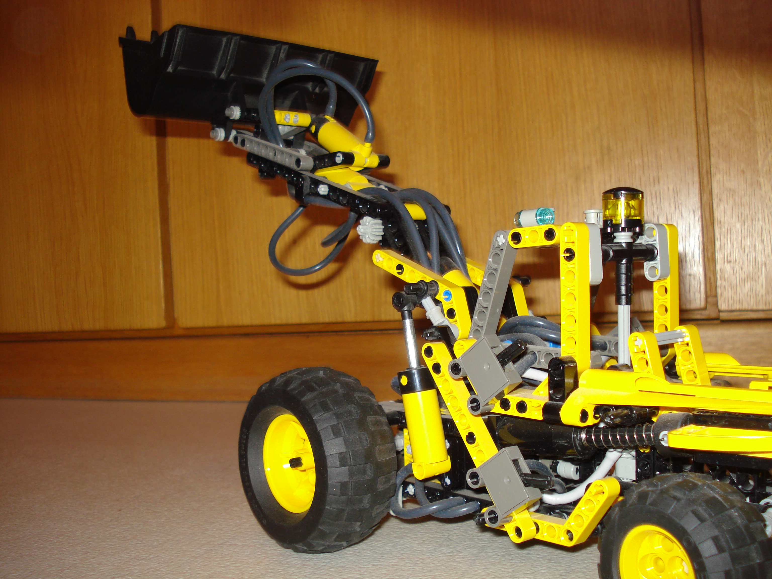 Lego Technic 8455